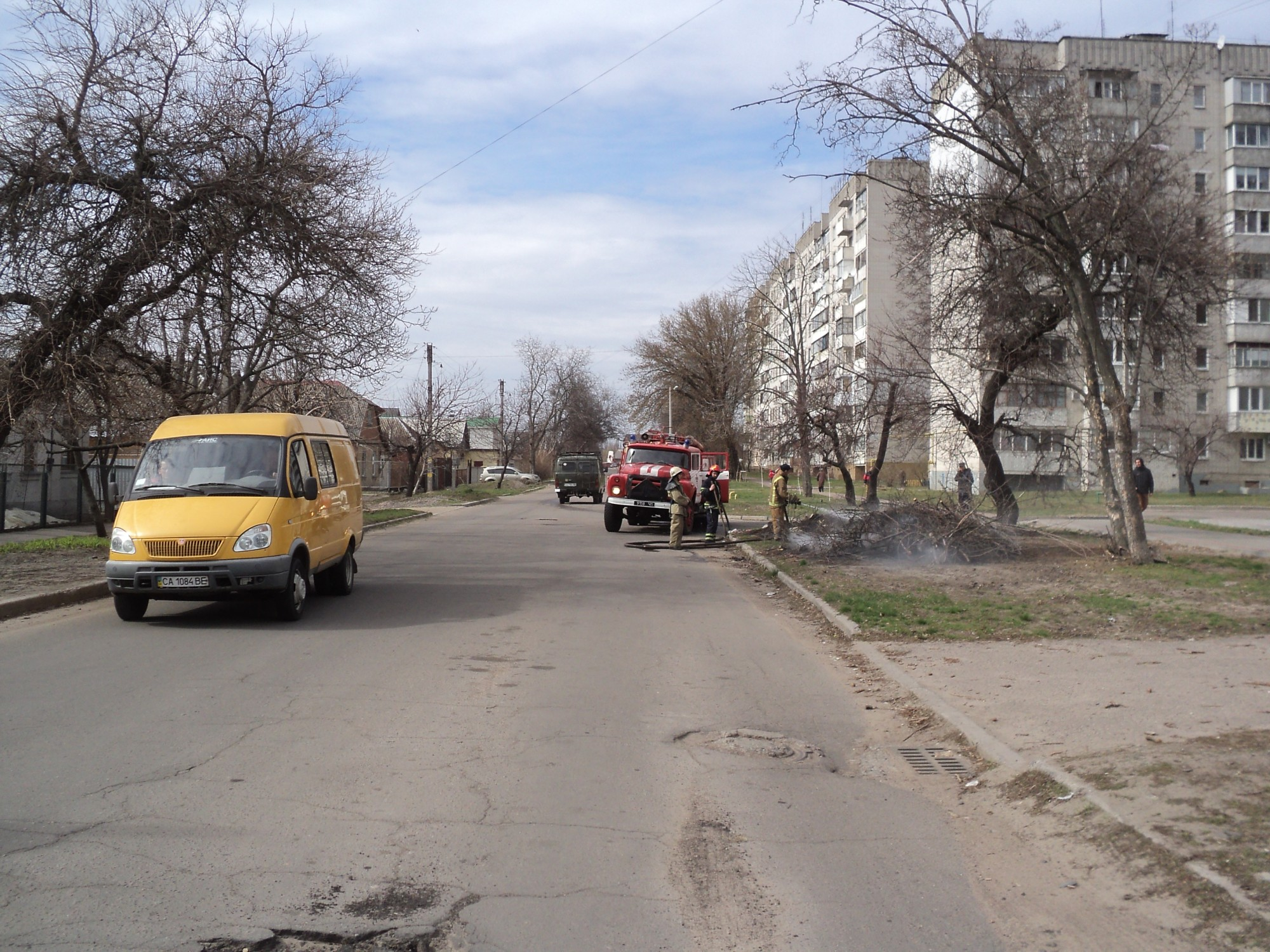 Fire fighting at the waste dump site at Nevs'koho street, Cherkasy, Ukraine